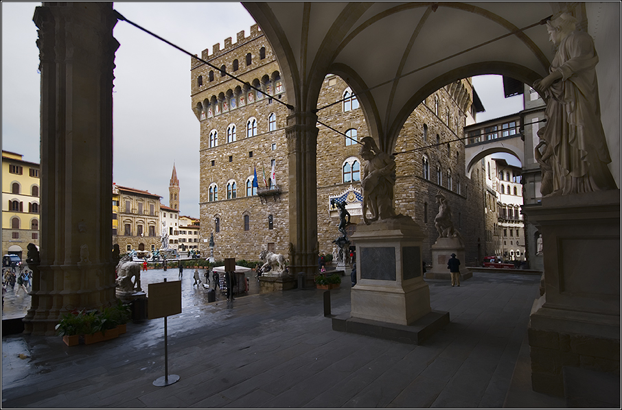 Piazza della Signoria